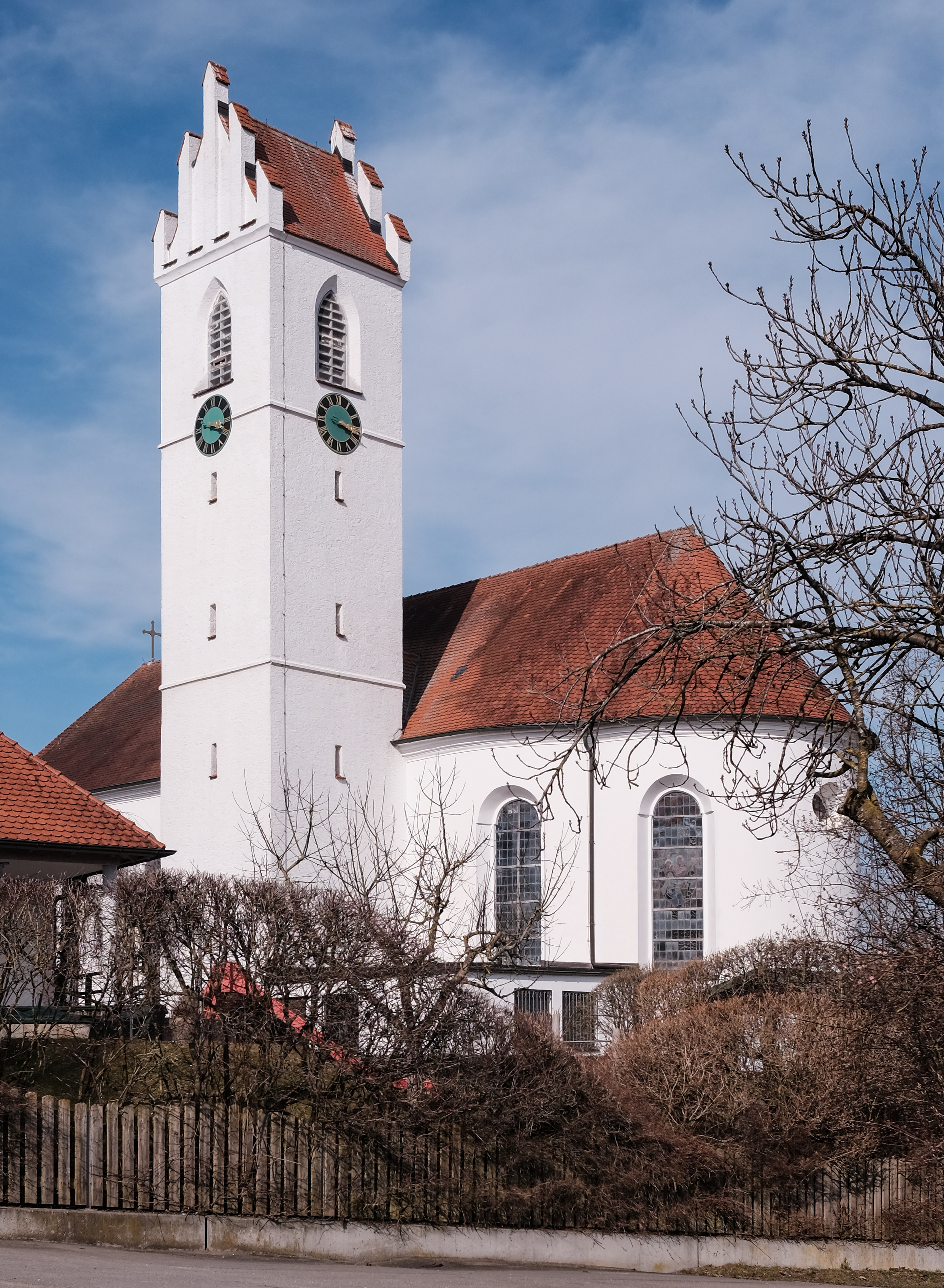 Parish church St. Mariä Himmelfahrt Kanzach, district Biberach, Baden-Württemberg, Germany